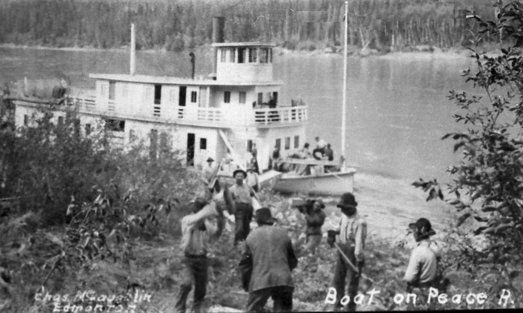 Gathering fuel for the steamship Grenfell.